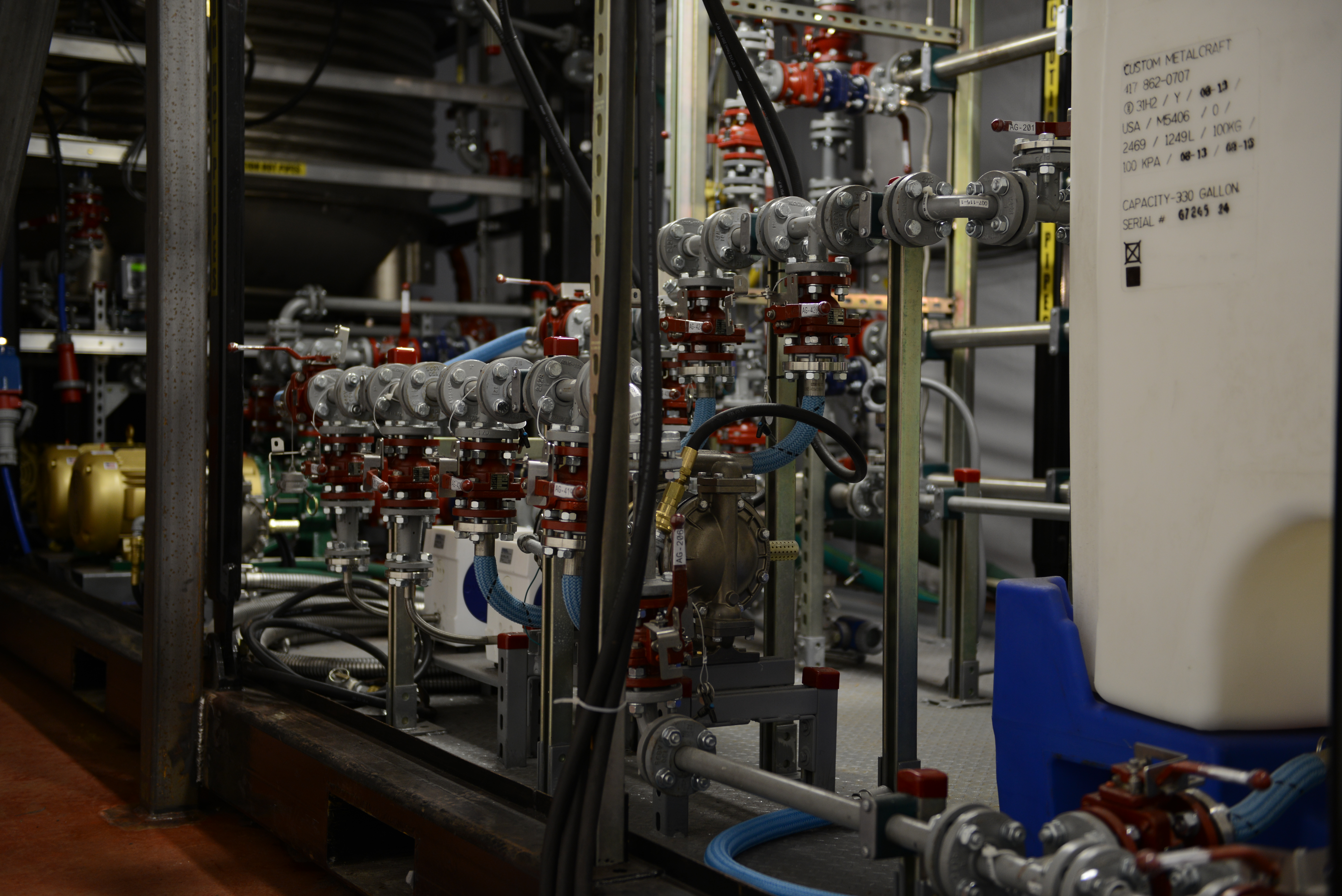 140102-A-NU123-003 PORTMOUTH, Va. (Jan. 2, 2014) One of two Field Deployable Hydrolysis Systems that are installed on the Military Sealift Command container ship MV Cape Ray (T-AKR 9679). The system is designed to neutralize up to 25 metric tons of chemical warfare agents a day. (U.S. Army photo by Todd Lopez/Released)